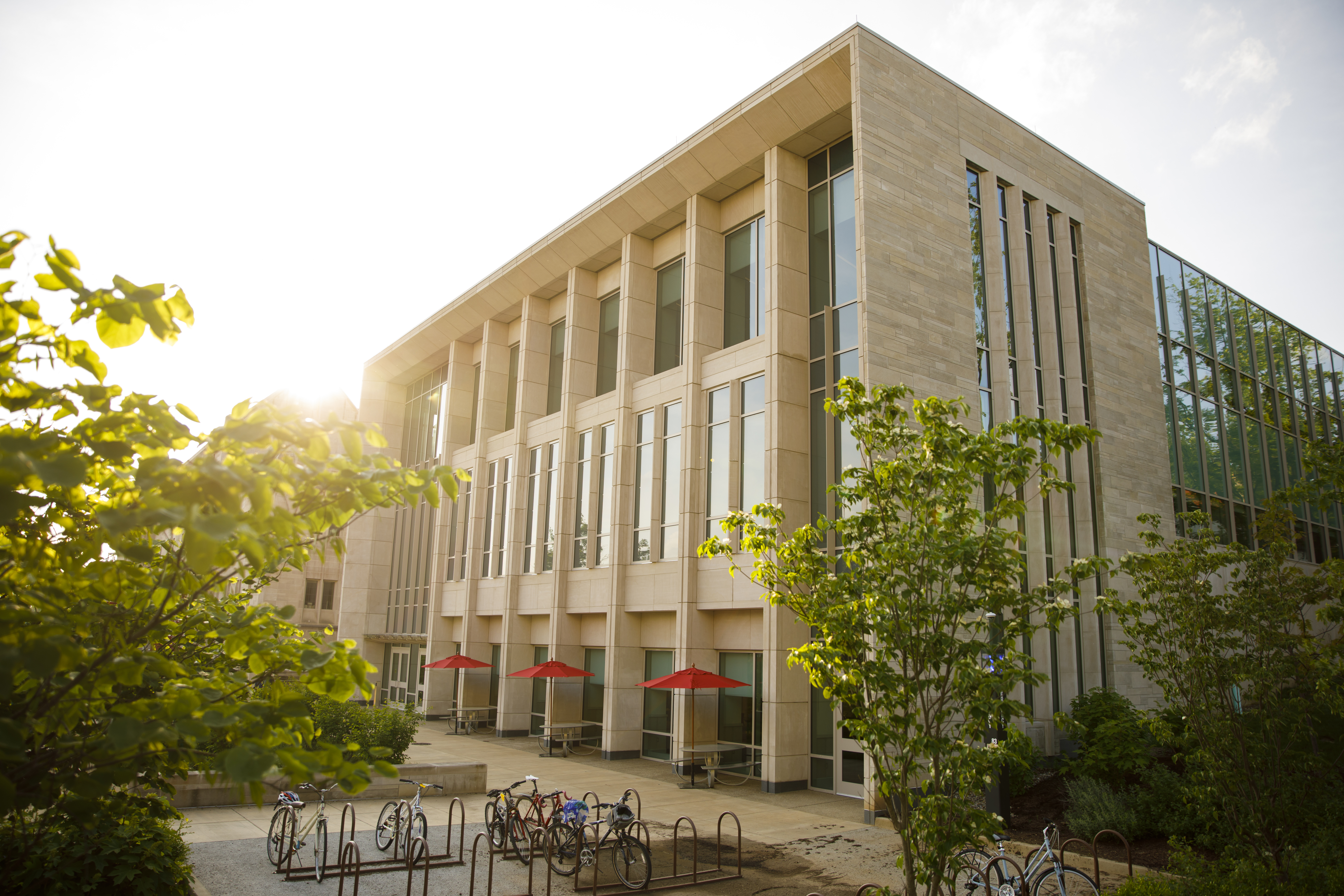 The exterior of the Paul H. O'Neill Graduate Center at the O'Neill School of Public and Environmental Affairs is pictured on a summer evening at IU Bloomington on Thursday, May 23, 2019.